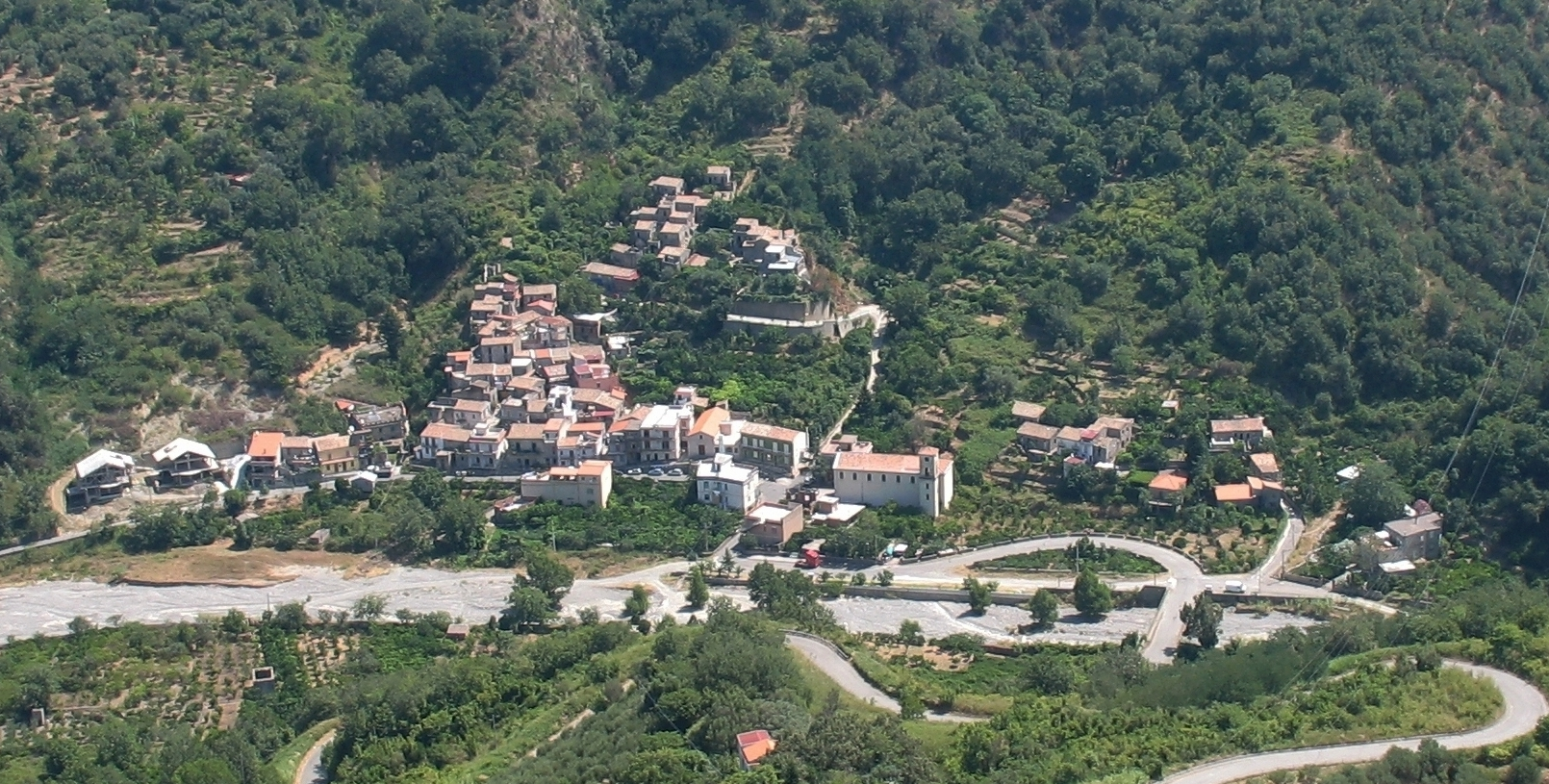 Saint Peter